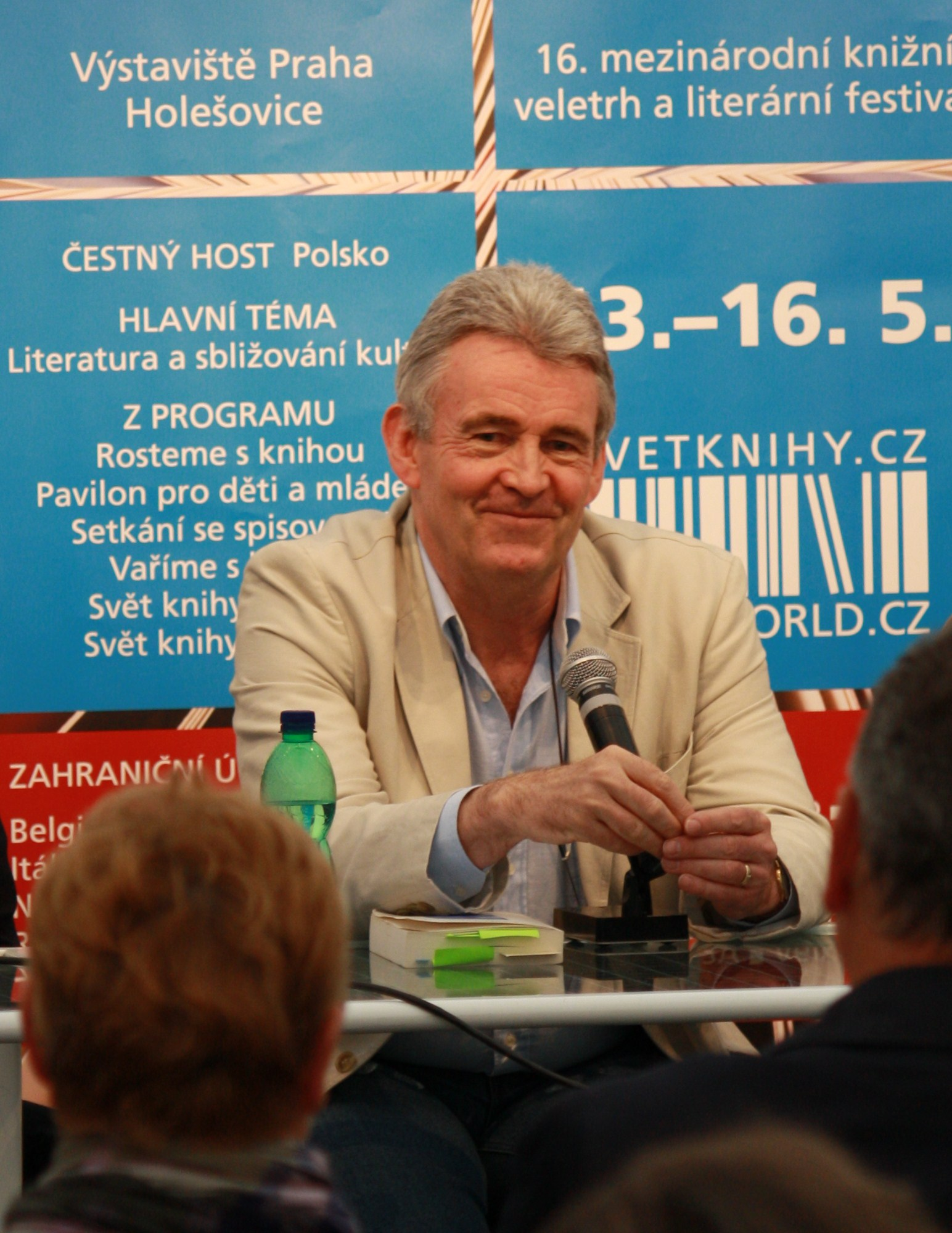 Simon Mawer (*1948) at Book World 2010, Prague, Czech Republic. This photograph was taken with DSLR from WMCZ's Camera grant